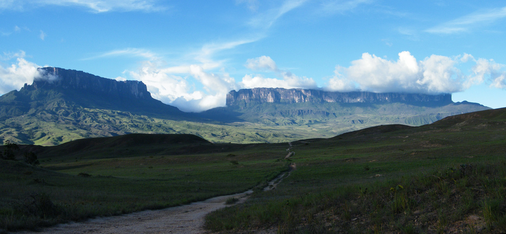 Mount Kukenan and Roraima